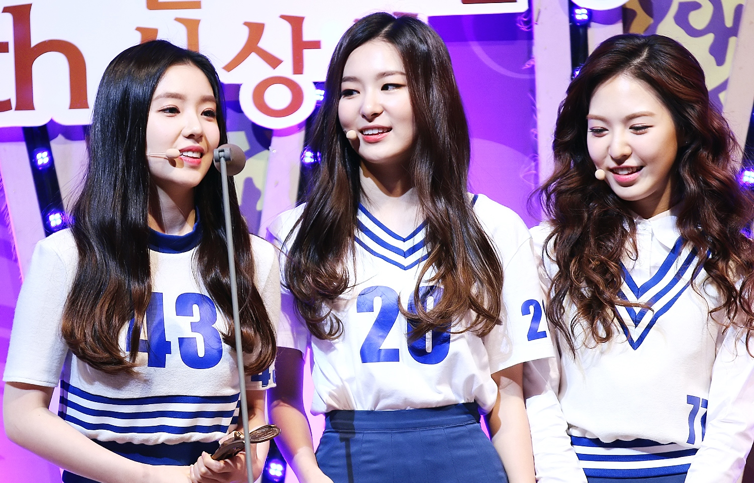 Red Velvet at Korean Entertainment Art Awards on January 17, 2015.